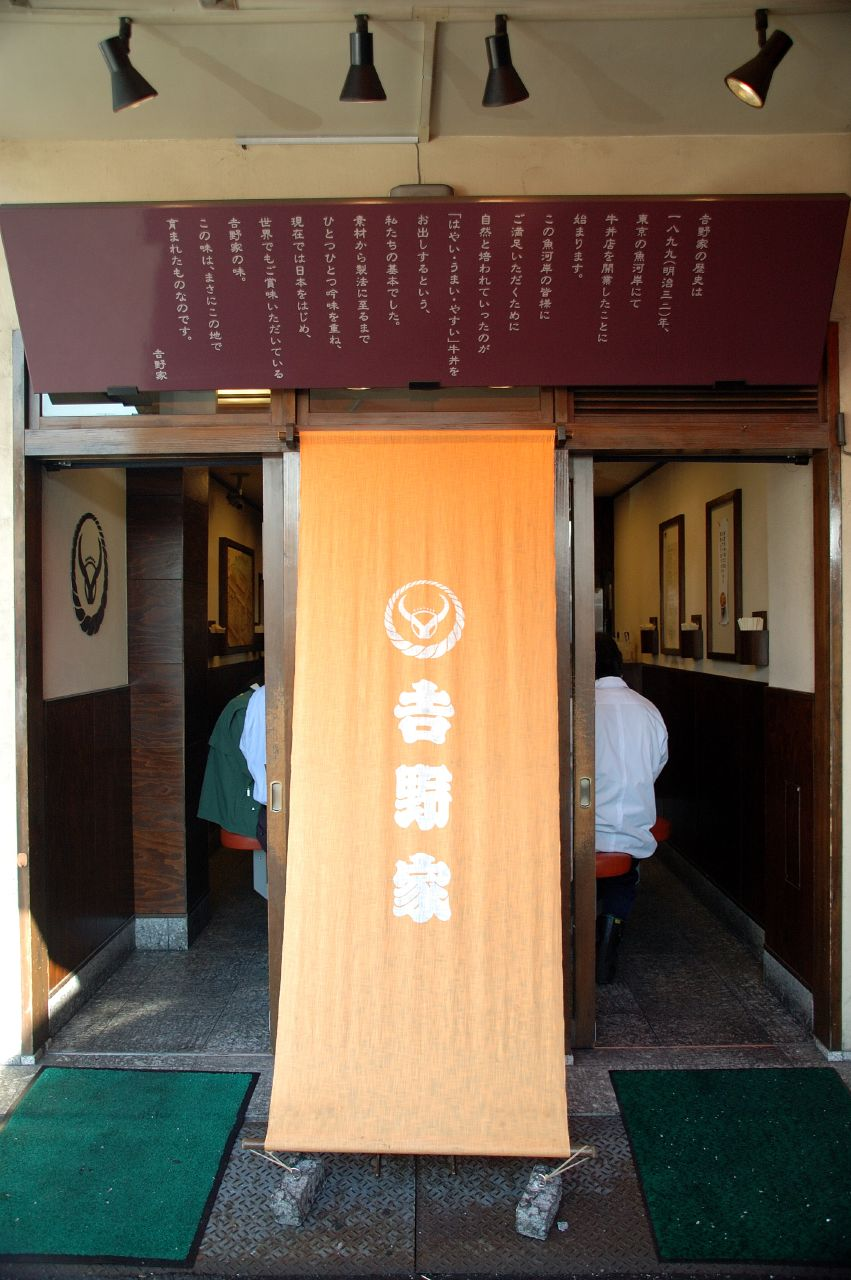 You can eat beef baul anytime even if Japan does'nt import beef. This restaurant provides domestic beef.